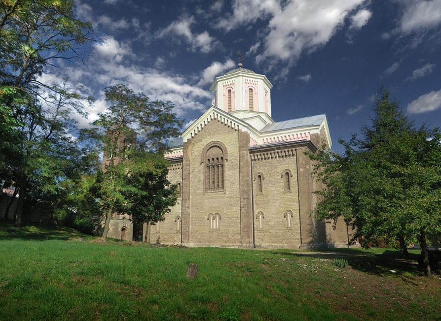 Church of Saint Sava in Kosovska Mitrovica,painted Sonioa